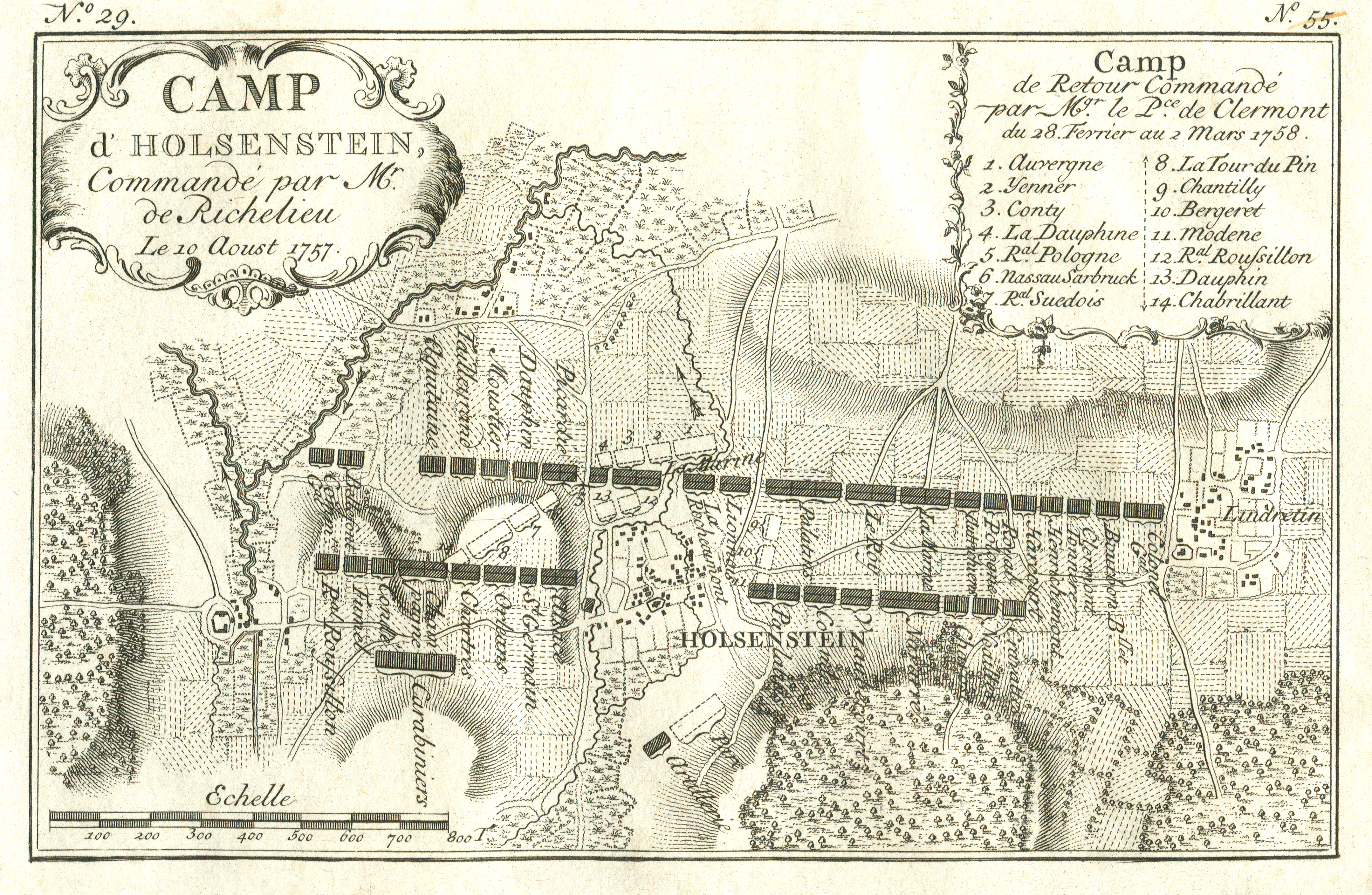 Topographic map, No. 29 & 55, of the camps in the Seven Years War with German villages Bredenbeck, Holtensen (Wennigsen) and Linderte in 1757 and 1758 (edited detail-version: color-adjustments by gimp ; cropped and retouched borders; retouching of some spots and scratches in whitespace with nearby content)